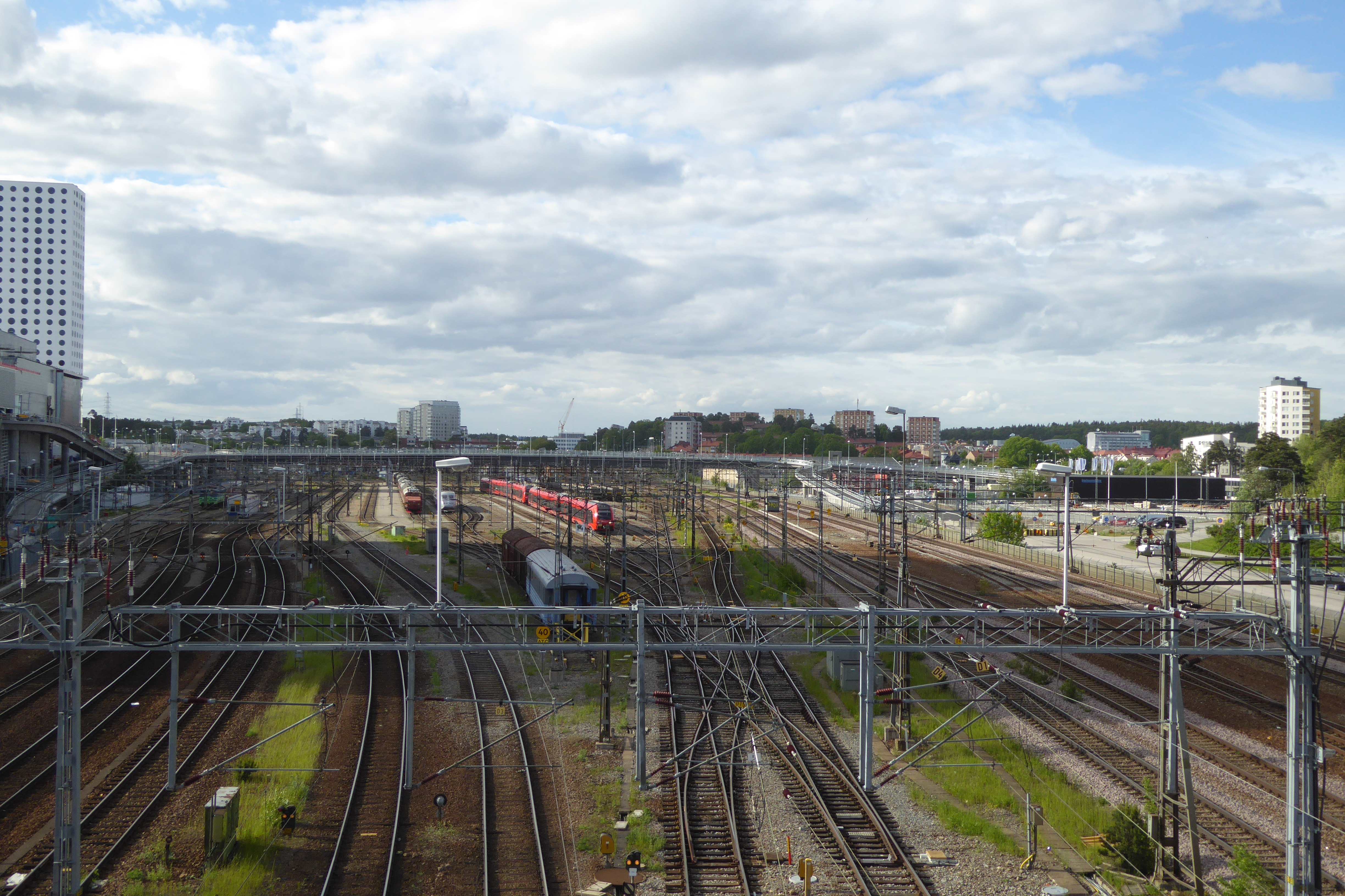 Signlabron looking north